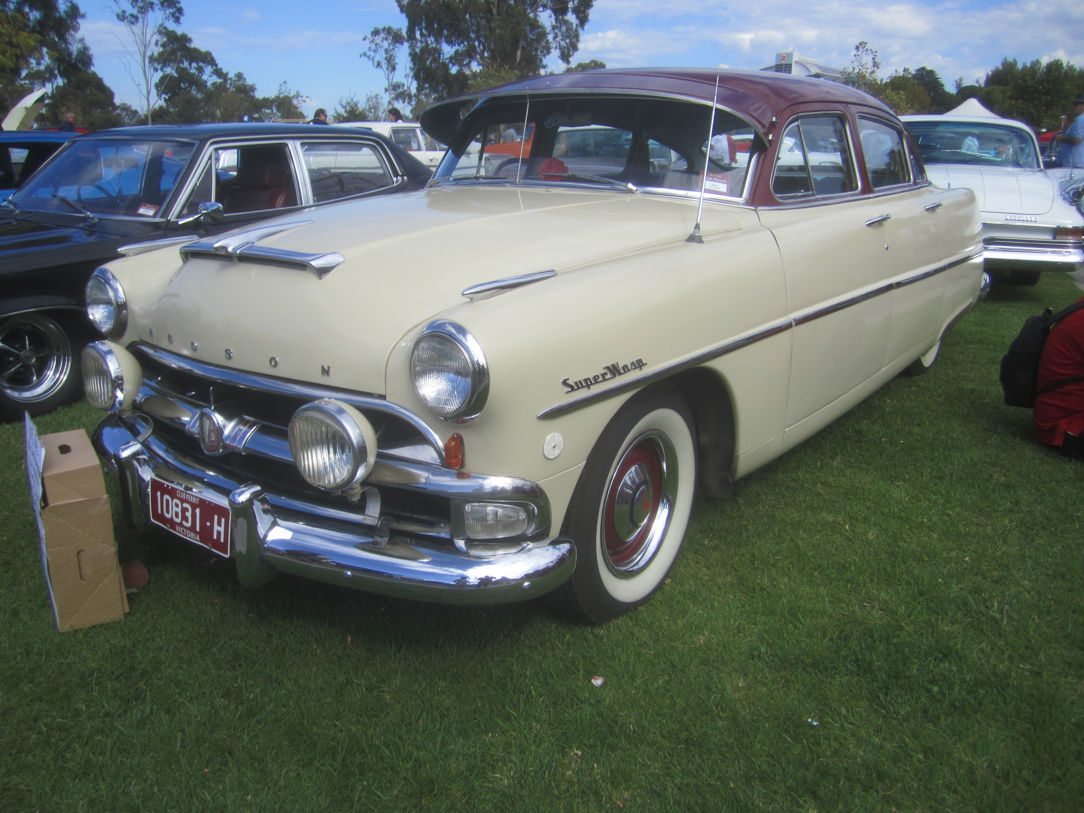 The Wasp was built from 1952-56, in the US and also assembled in Australia. It was split into 2 generations; 52-54 built by Hudson and 55-56, built by AMC. It was available in 2 and 4 door sedan, convertible and 2 door Hardtop (the Hollywood) Also available in the 1st generation was the Super Wasp with improved interior and more powerful 262 cu in 6 cyl engine. (standard was 232 cu in)